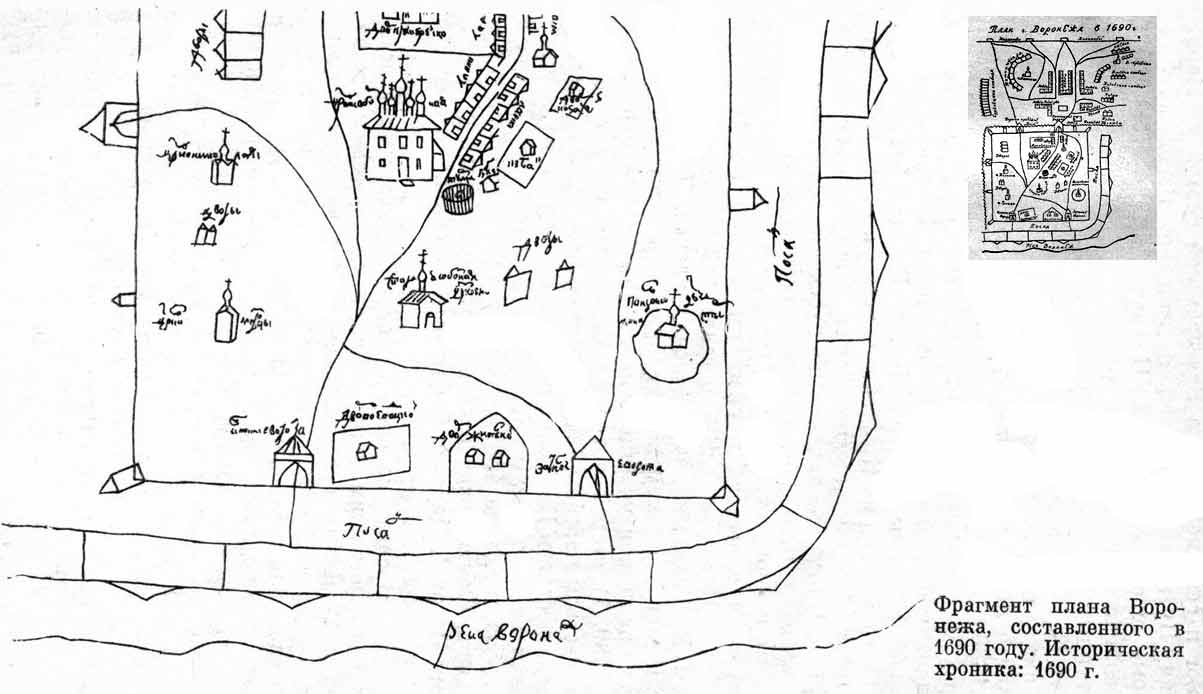 The plan of Voronezh 1690